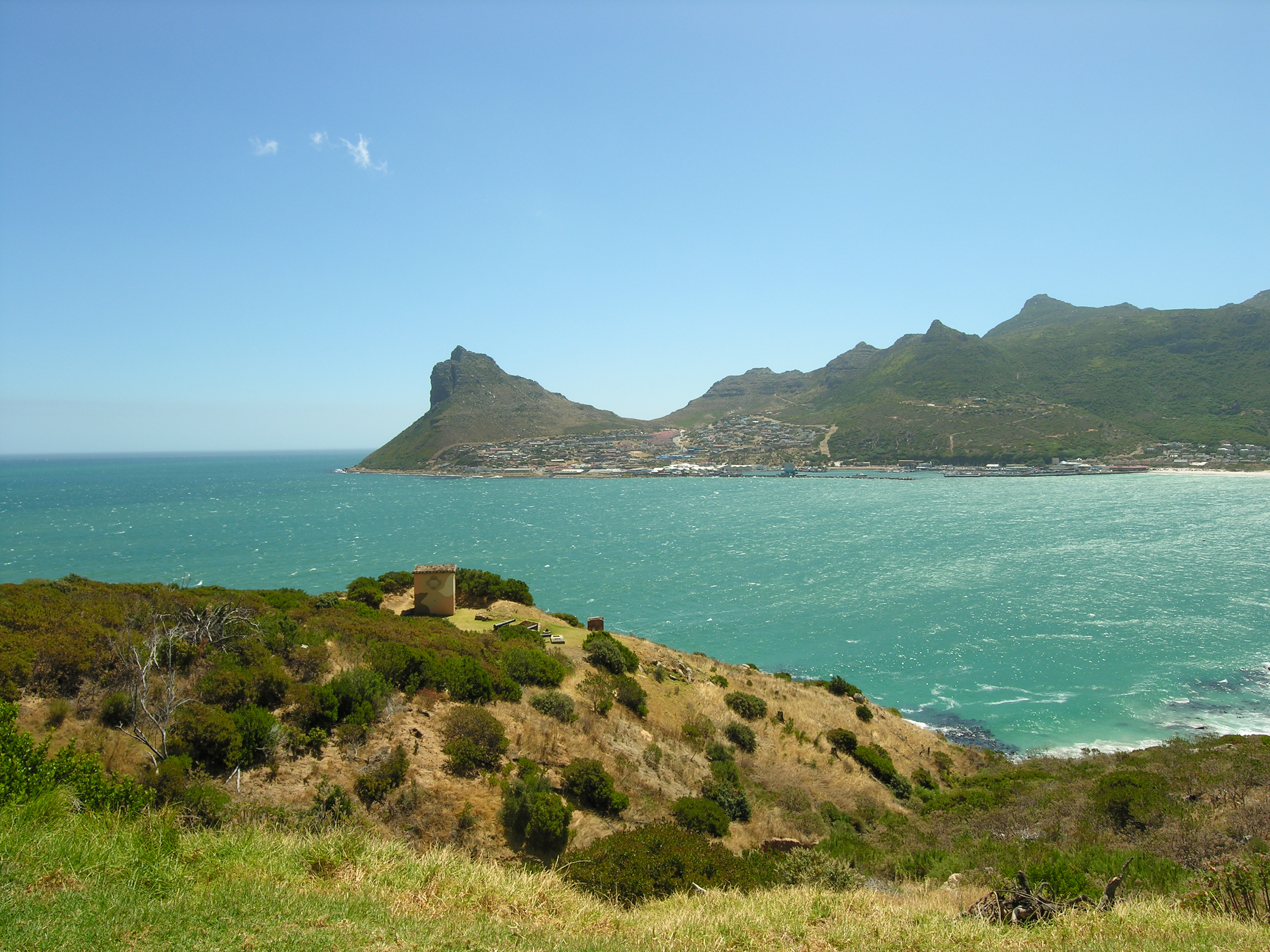 Hout Bay, the Sentinel and Karbonkelberg taken from Chapman's Peak Drive